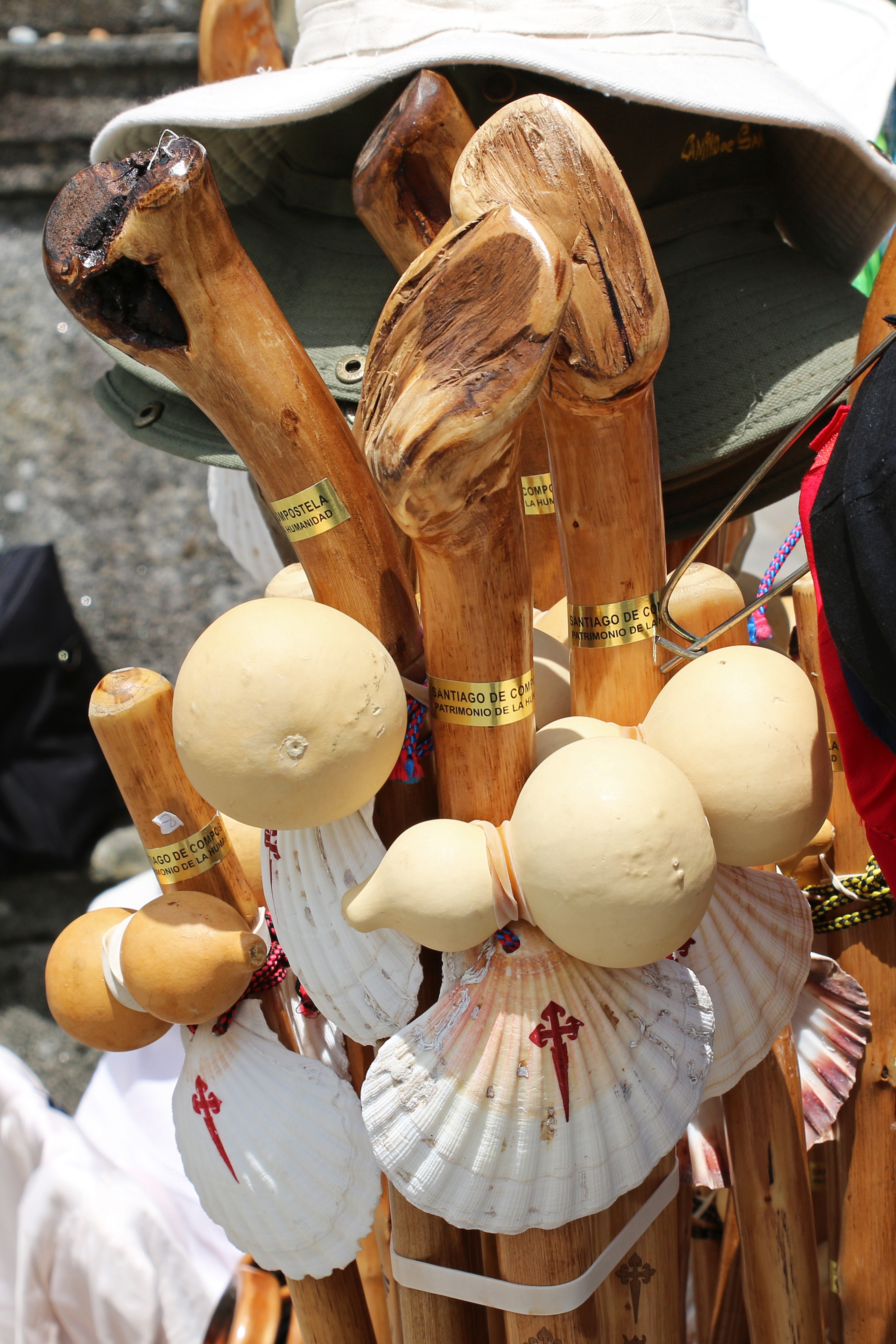 Pilgrimage souvenirs seen in Santiago de Compostela, Spain